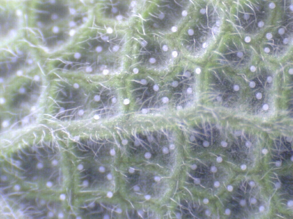 A close up photograph of the underside of a leaf of Salvia officinalis. Scale = 6mm across. Taken with a USB microscope in Gloucestershire, UK.